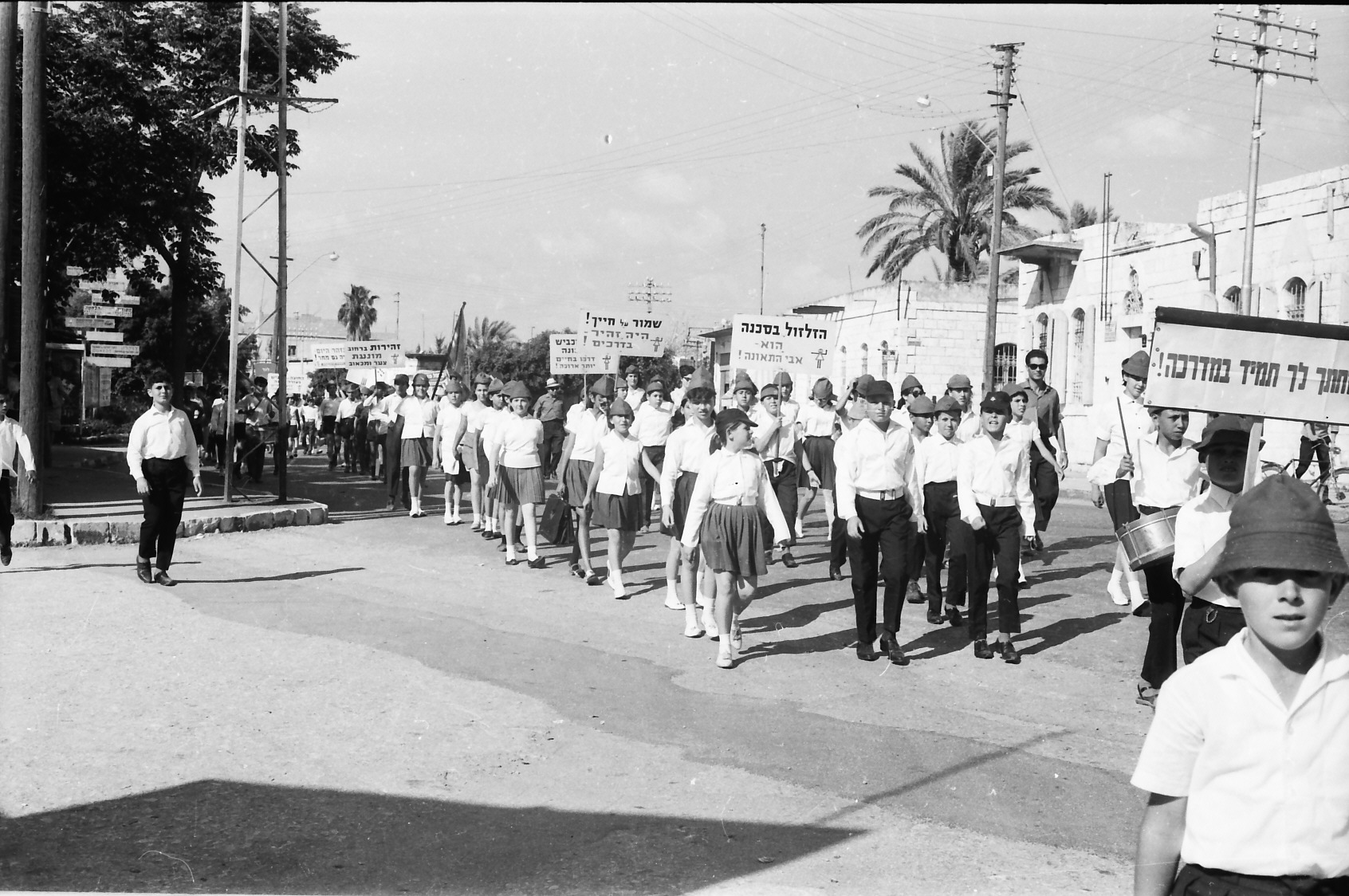 Environment of Israel